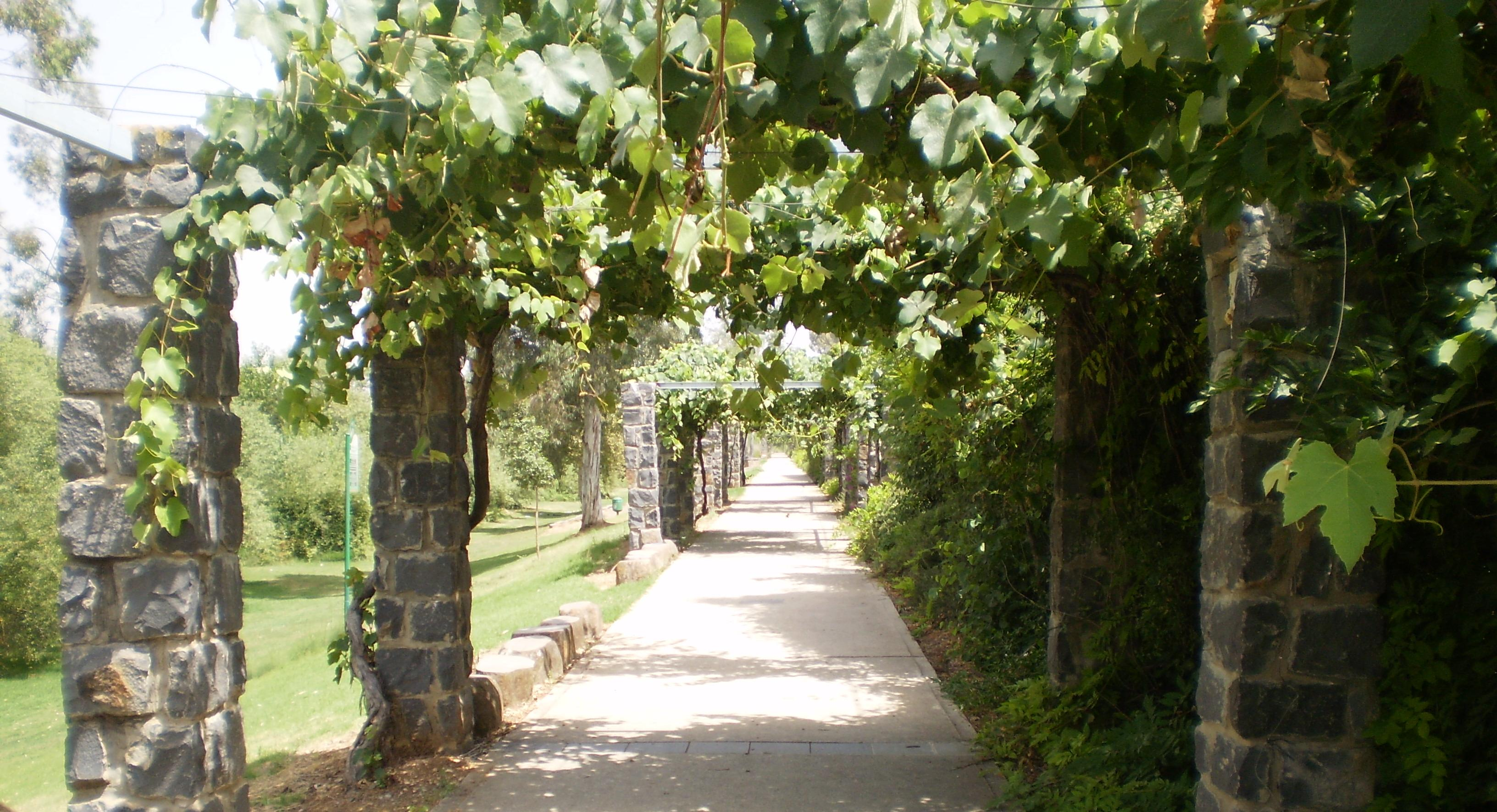 "Shvil Ami" esplanade along the Jordan River, near Kfar Blum